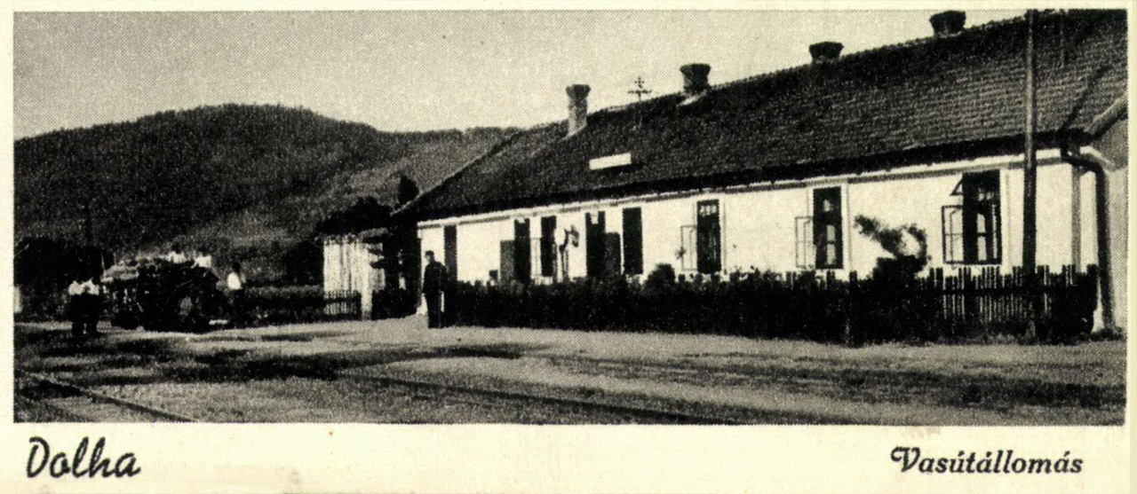 Dolha vasuti